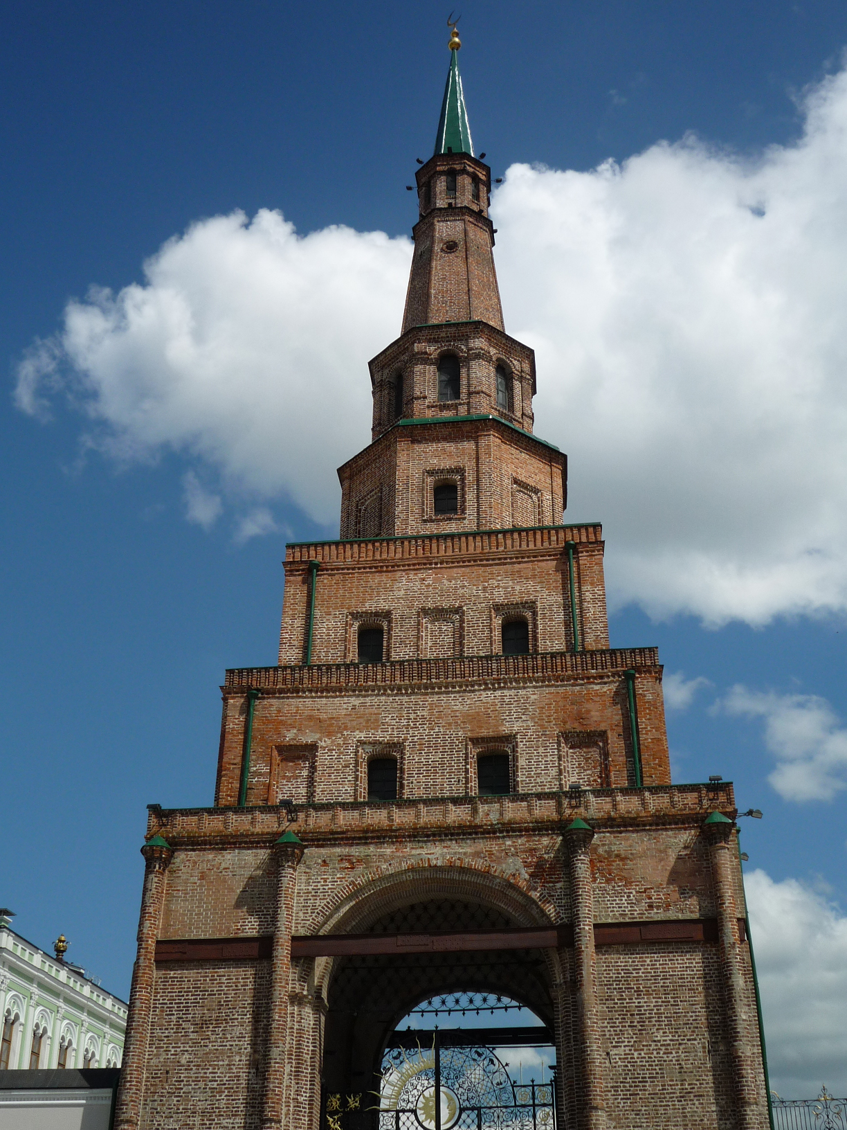 The Soyembika Tower of the Kazan Kremlin, Kazan, Russia.